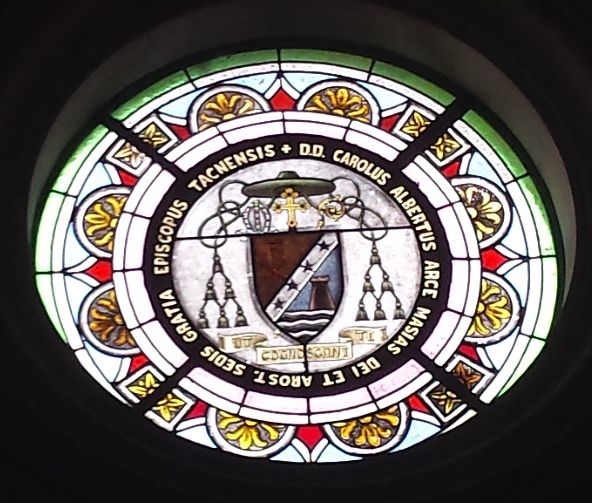 Bishop Carlos Alberto, shield.